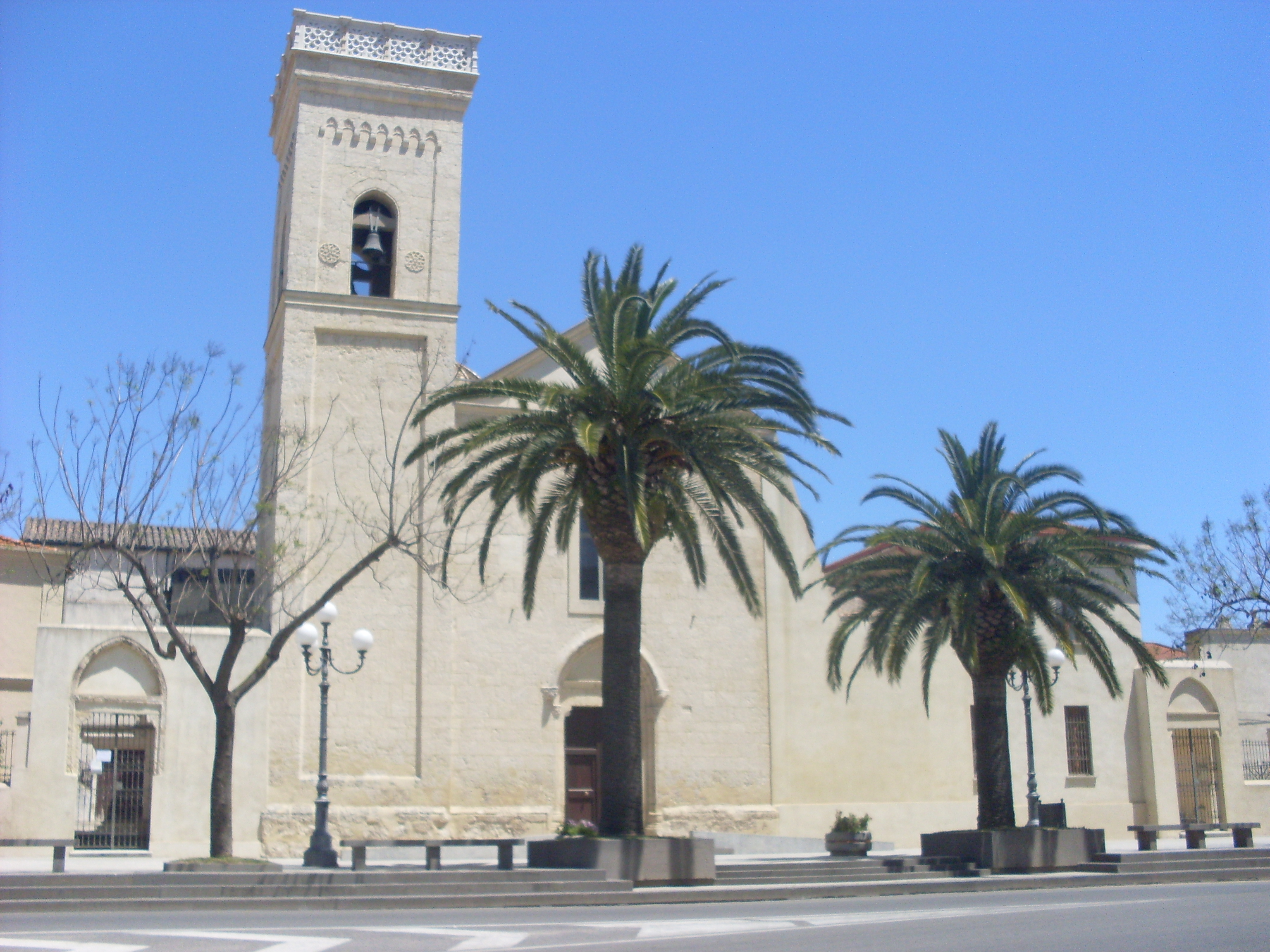 San Biagio church (15th century) in Villasor (Sardinia, Italy)